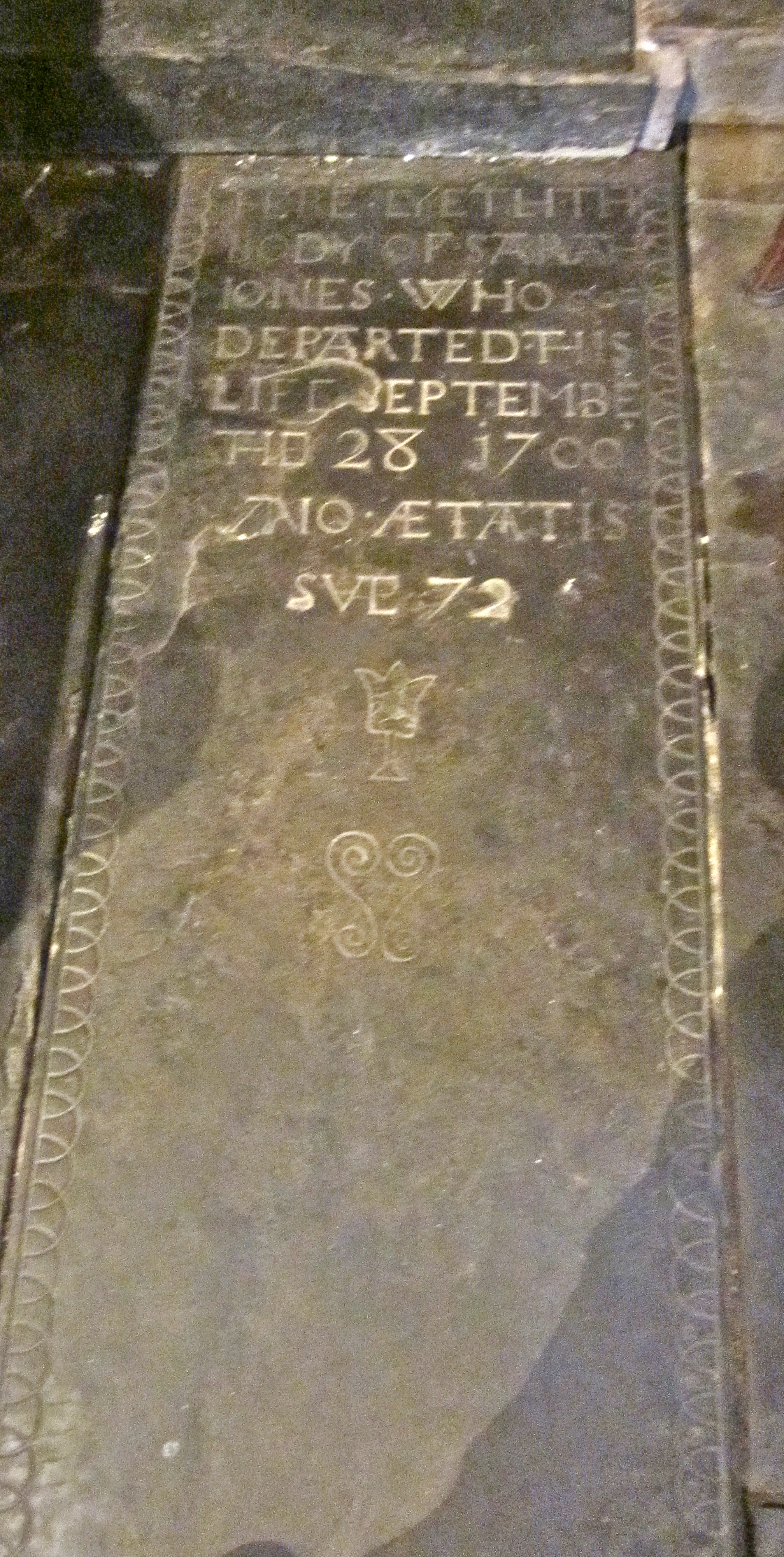 The timber framed church at Trelystan, Montgomeryshire. 2014. Tombstone in nave floor.